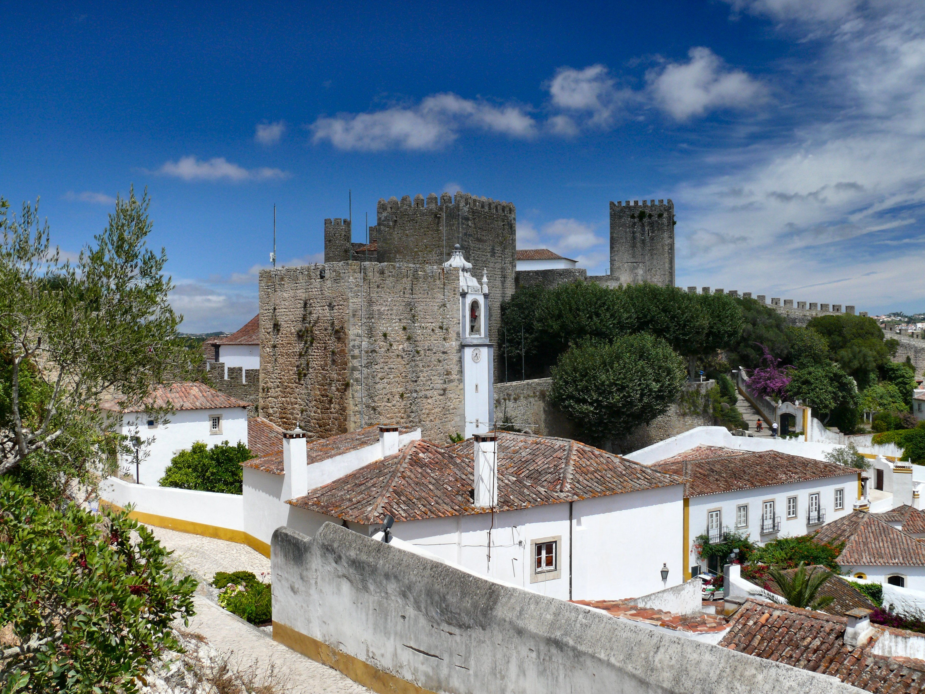 The medieval castle of Obidos, Oeste, Estremadura, District of Leiria, Centro region, portugal, August 2008.